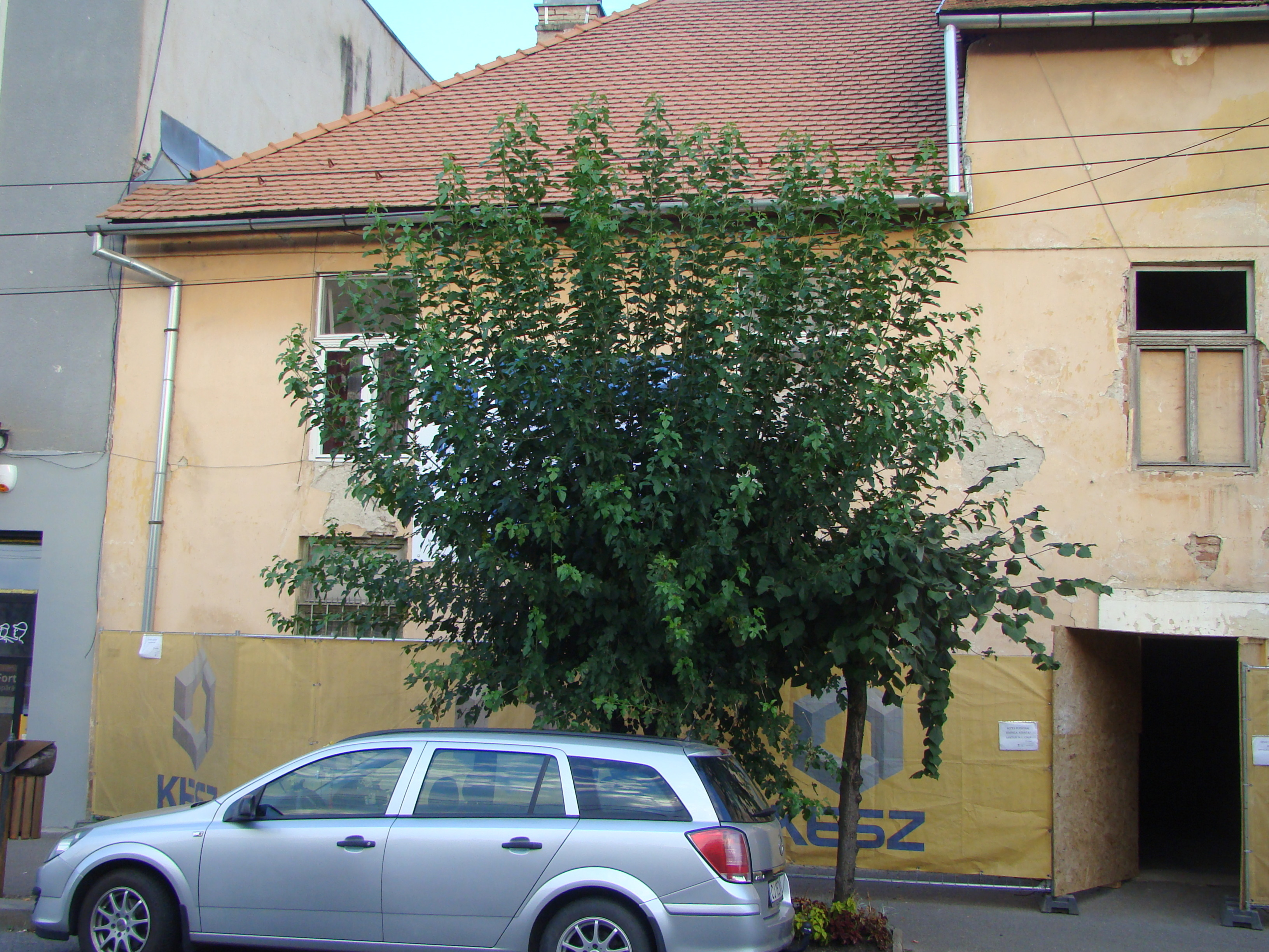 Franciscan monastery in Gherla, Cluj county, Romania